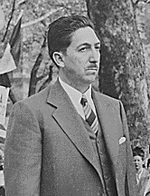 Mexican president Miguel Alemás Valdés.